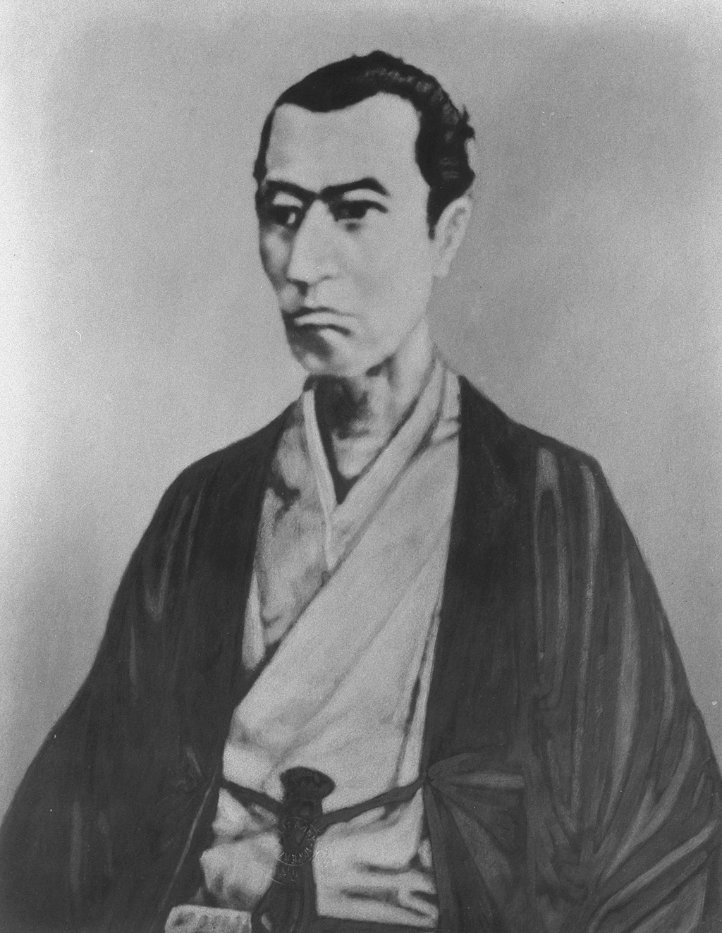 Portrait of Yoshida Shoin (吉田松陰, 1830 – 1859)